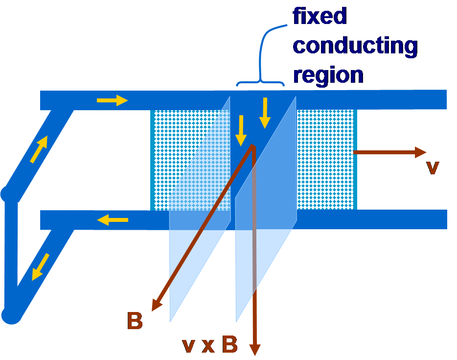 Feynman counterexample to flux law